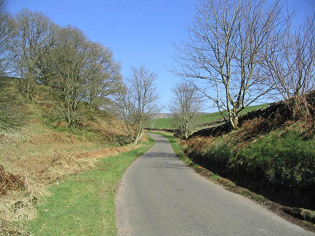 Country road South of Gatelawbridge.